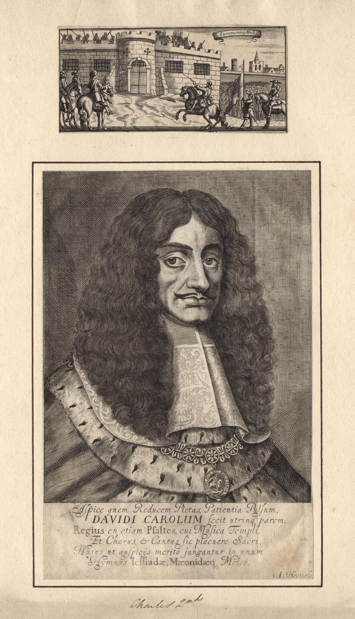 King Charles II, by A. Hertocks (floruit 1662). All images in this batch have a known author with unknown death date, but according to the NPG's website the author was floruit (known to be active) prior to 1859, and so is reasonably presumed dead by 1939.